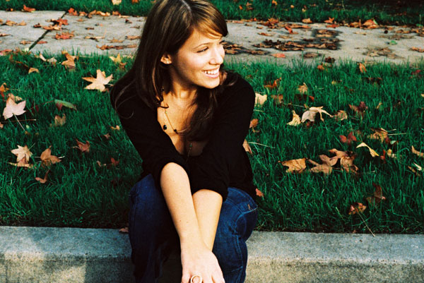 Actress und musician Marla Sokoloff